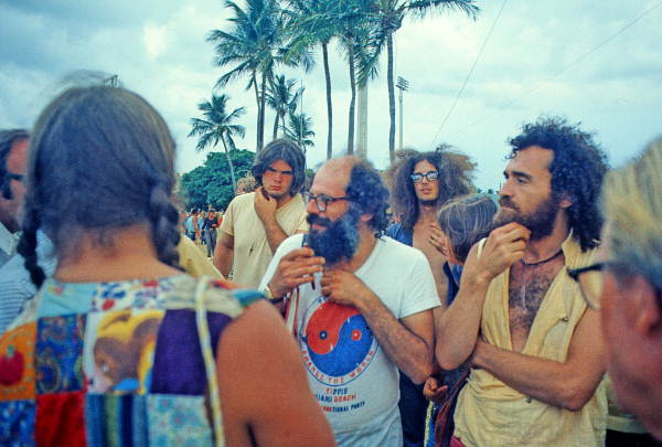 Poet and activist Allen Ginsberg with the protestors - Miami Beach, Florida.